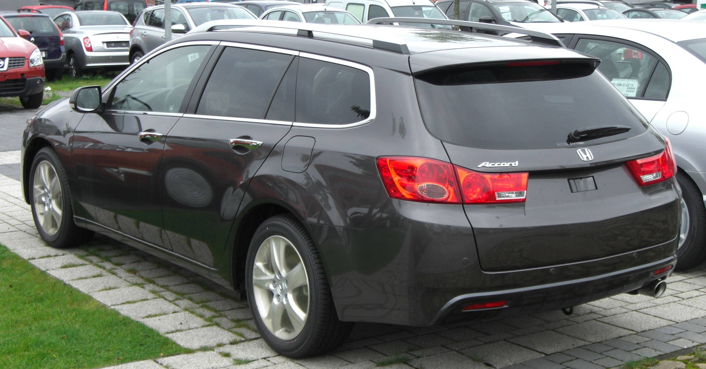 Honda Accord Tourer VIII